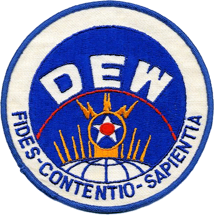 Emblem of the USAF Distant Early Warning Line and Distant Early Warning System Office Emblem